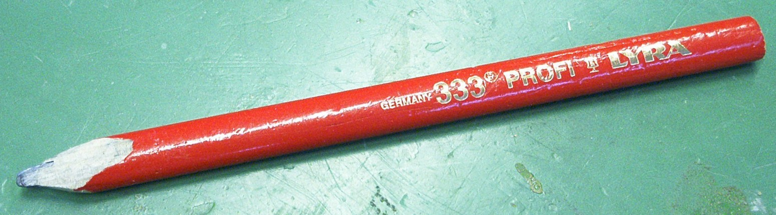 Carpenter's pencil.